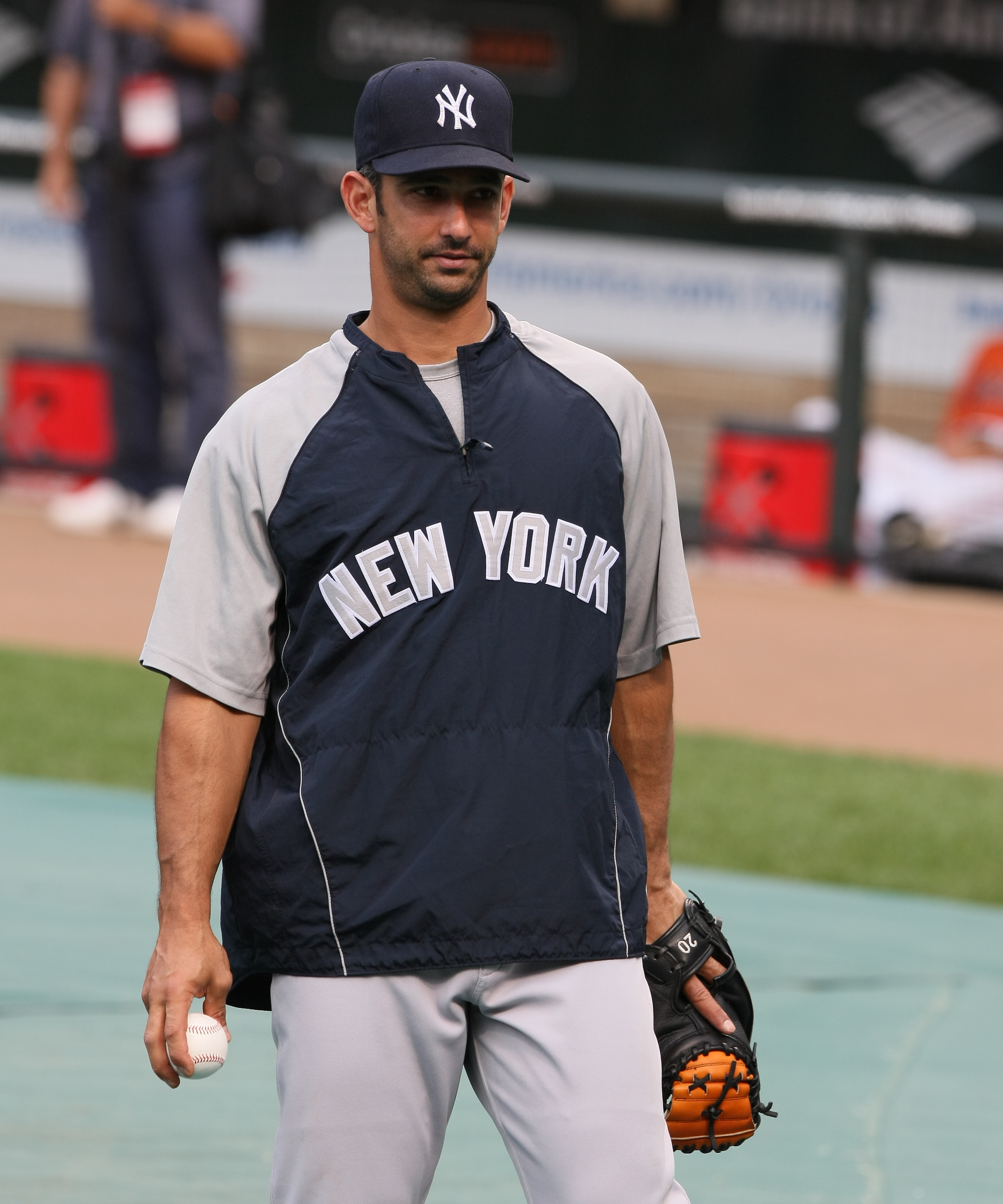 Jorge Posada prior to a game between the New York Yankees and Baltimore Orioles on 08/31/09